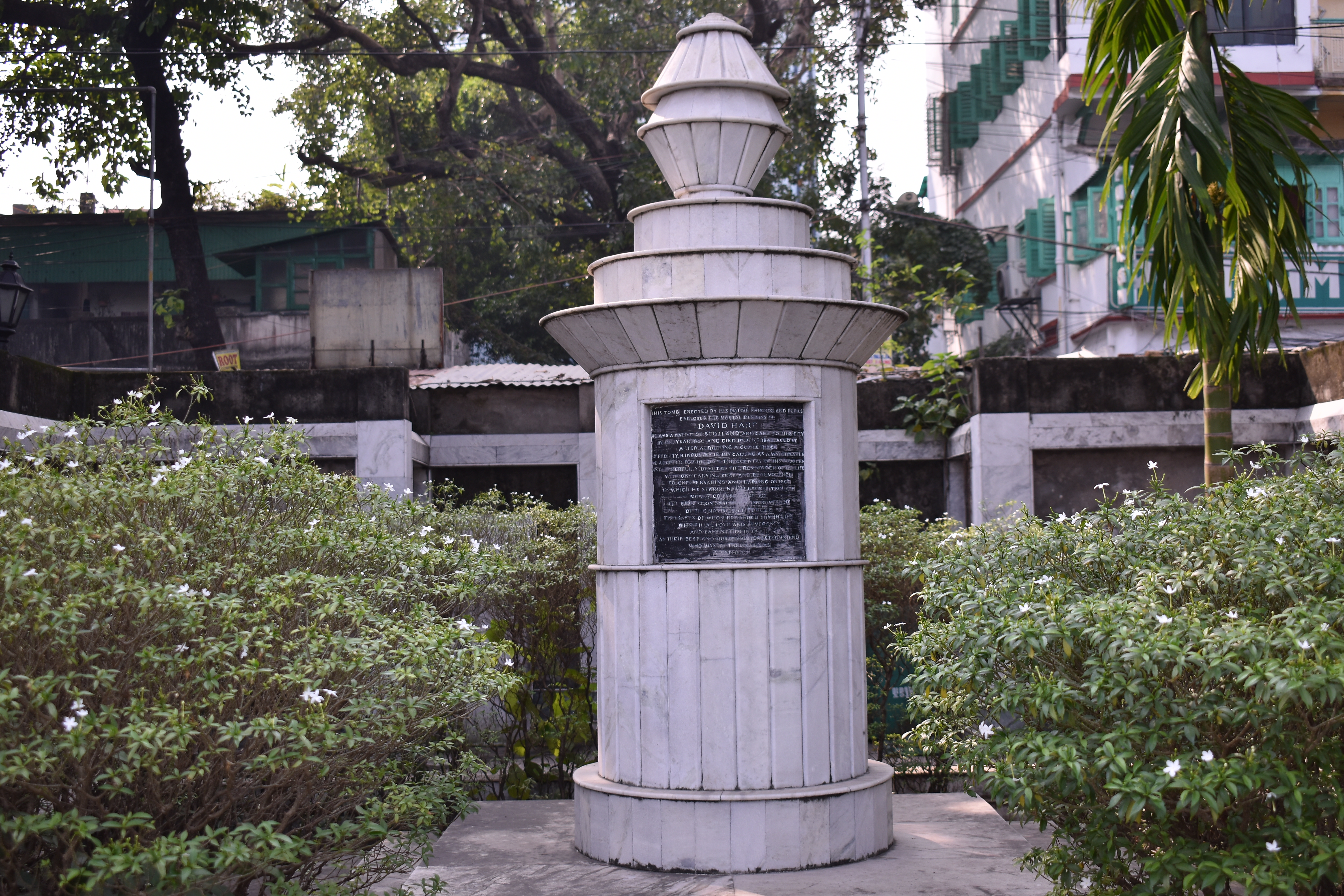 Educationist and Philanthroist David Hare's Tomb, situated at College square in Kolkata